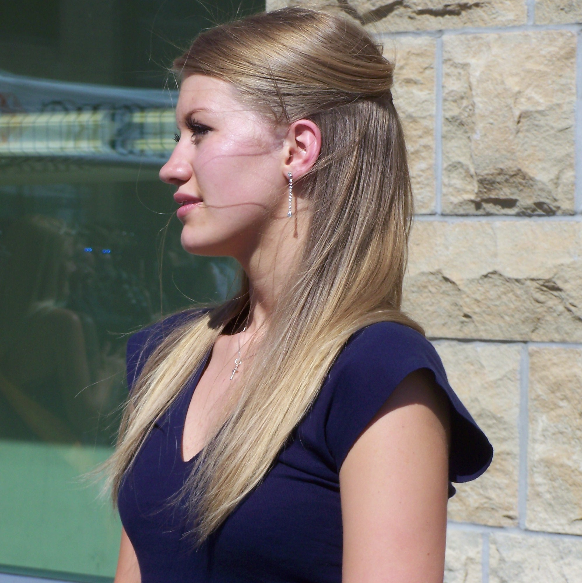 This is a photo of Casar Jacobson taken off-stage at the Miss Sun and Salsa Pageant in the Kensington community of Calgary, Alberta, Canada on July 20, 2008. Photographer: Robert Thivierge